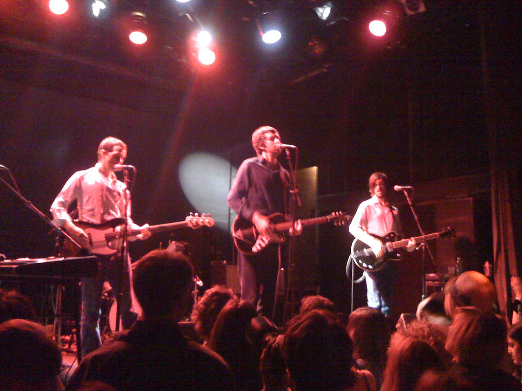 a normal show